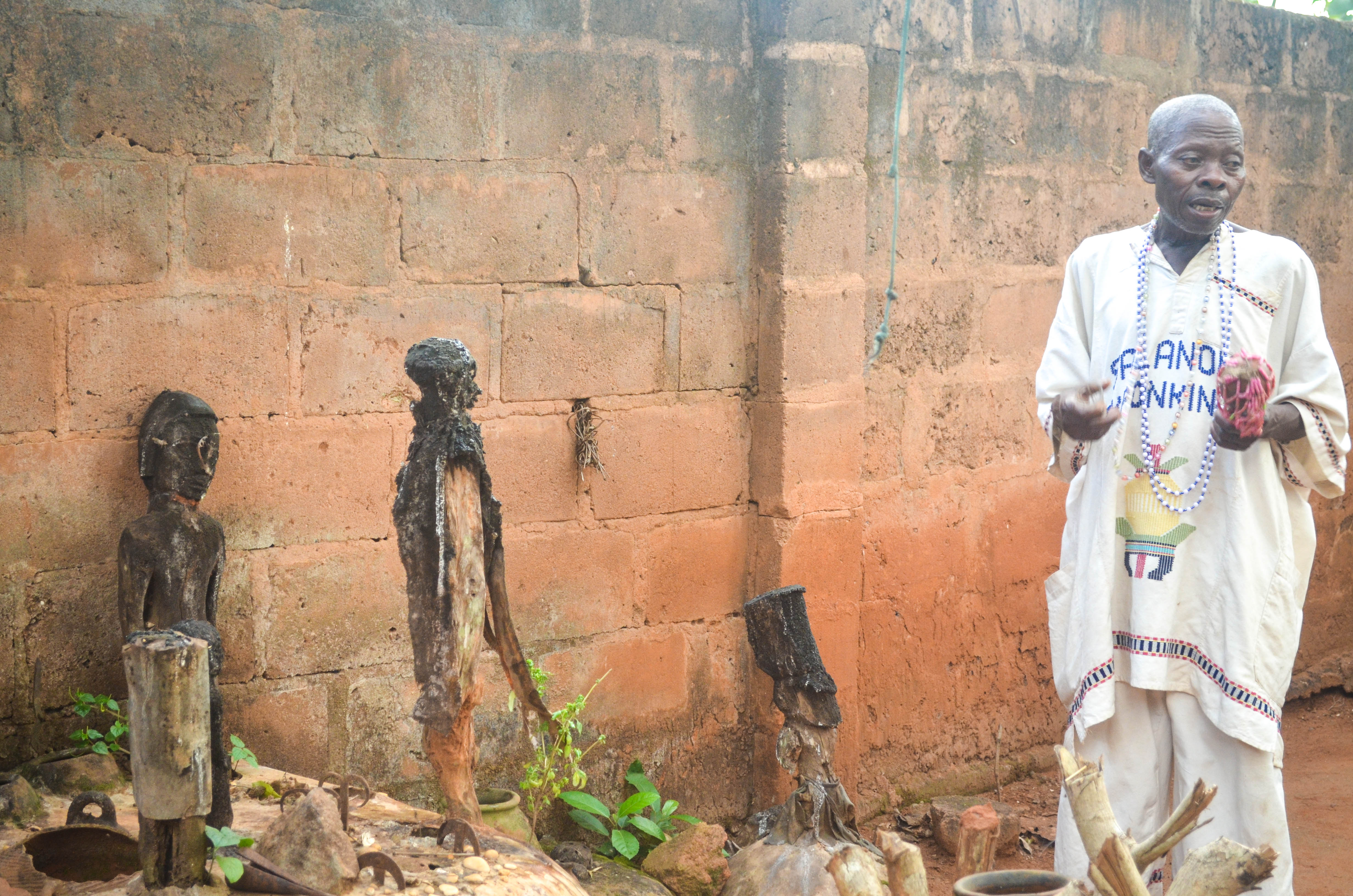 Taken on 07 October 2013 in Benin around Abomey : Cycling Africa beyond mountains and deserts until Cape Town